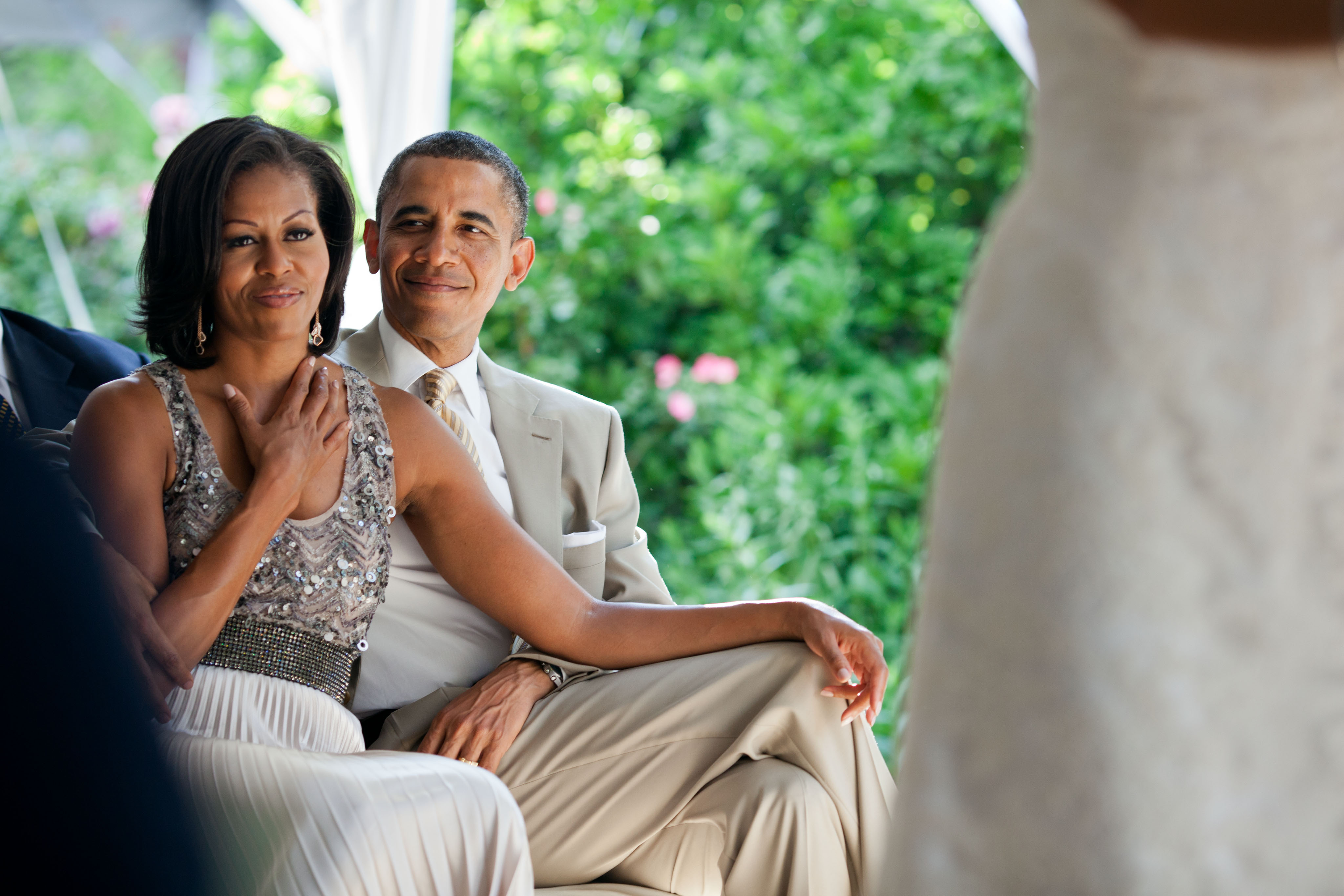 United States President Barack Obama and First Lady Michelle Obama watch Laura Jarrett and Tony Balkissoon take their vows during their wedding at the home of Presidential Senior Advisor, Valerie Jarrett, in Chicago.